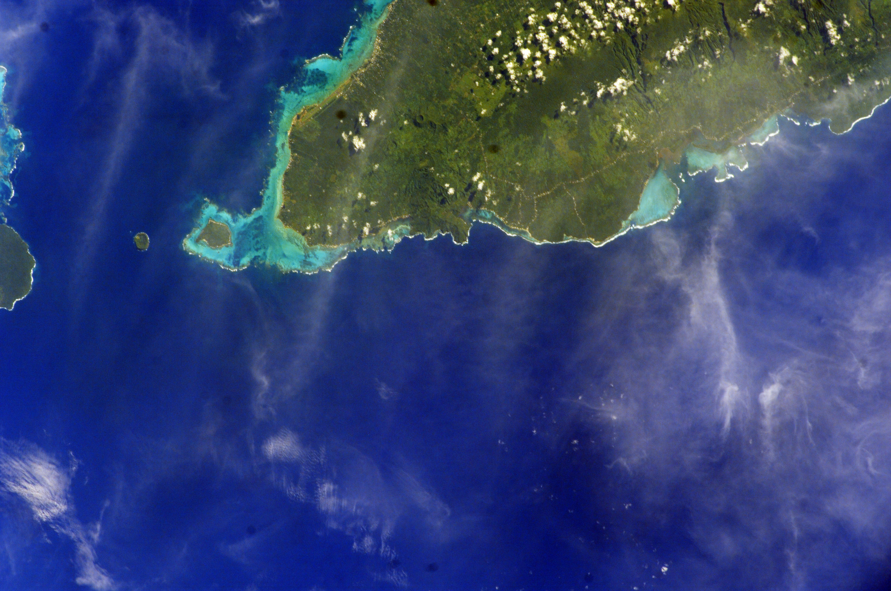 Satellite photo of A'ana district, west end of Upolu Island, Samoa with Manono and Apolima islands in the Apolima Strait.